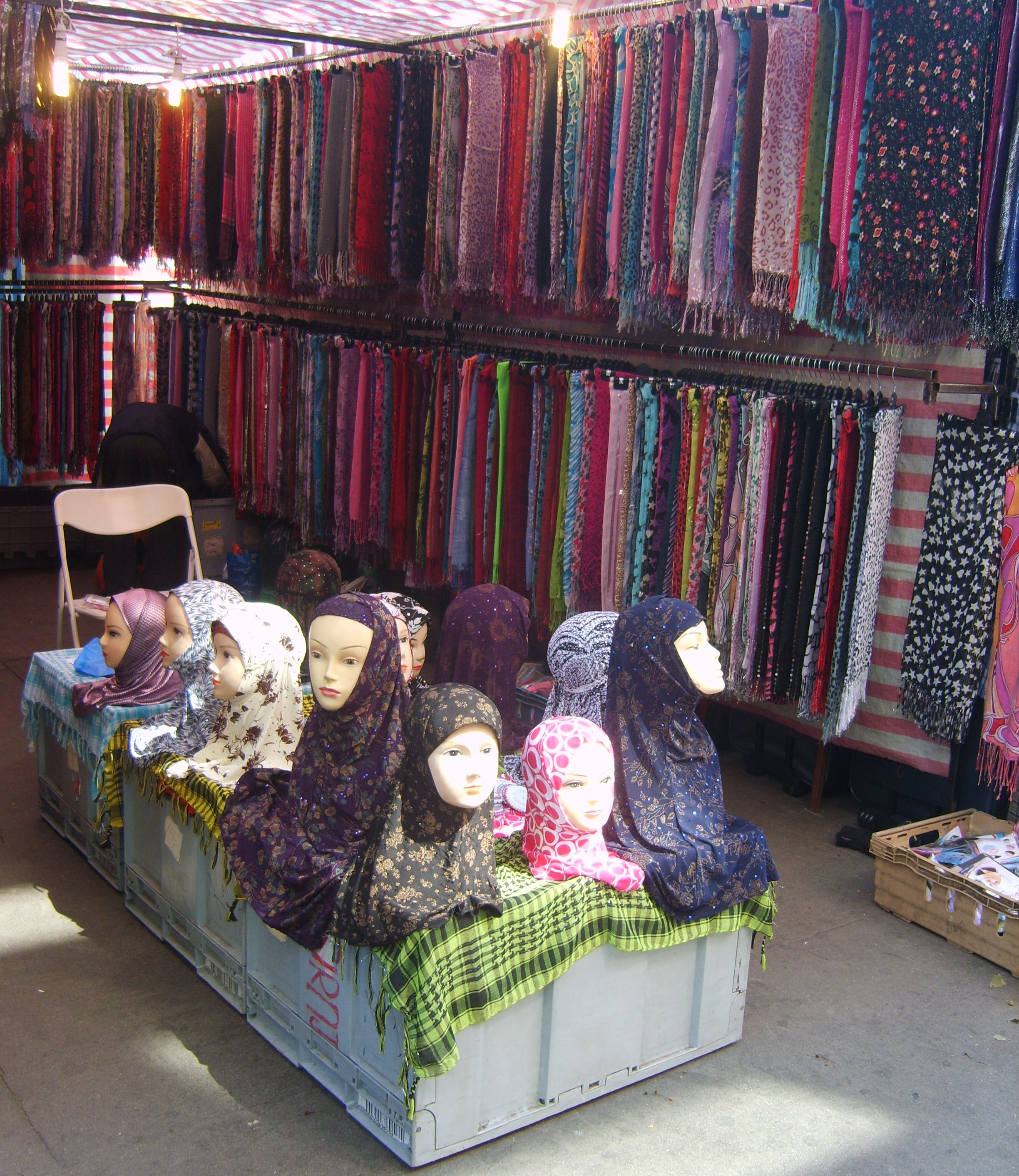 Market stall on Whitechapel market on Whitechapel Road in London, E1